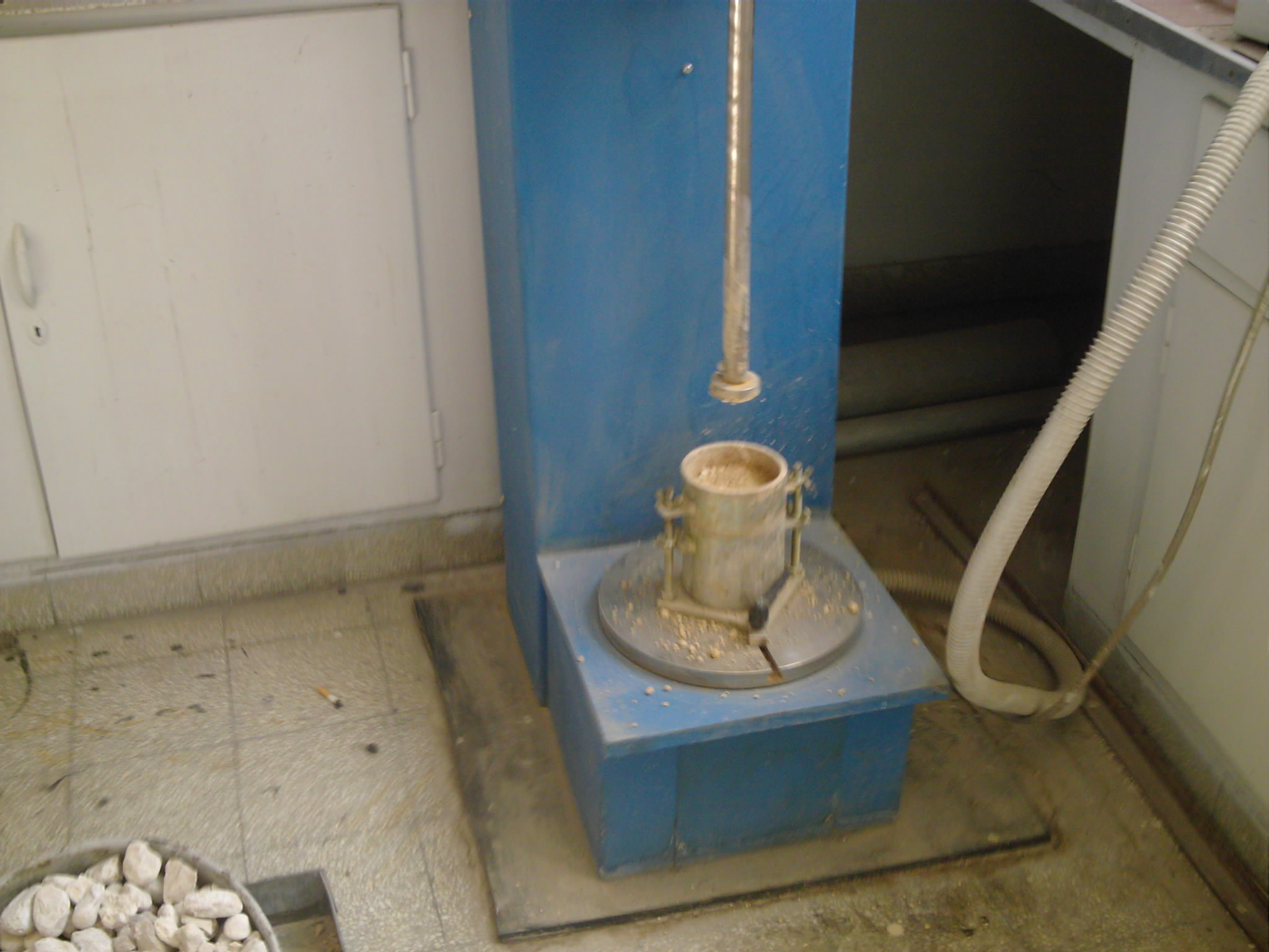 Proctor device use in proctor compaction test